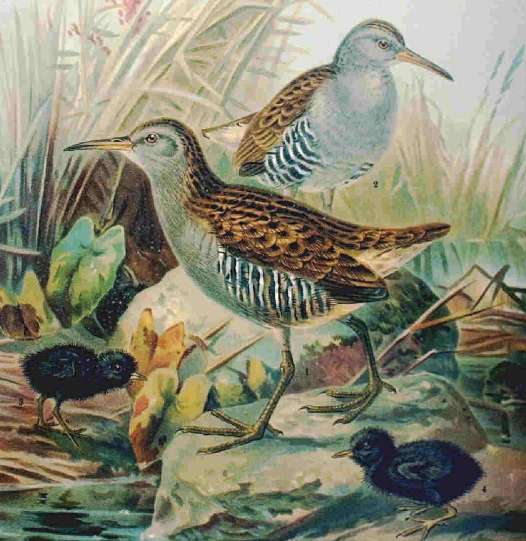 Water rail, Rallus aquaticus from Johann Friedrich Naumann (1780-1857), Naturgeschichte der Vögel Mitteleuropas Band VII, Tafel 16 - Gera, 1899